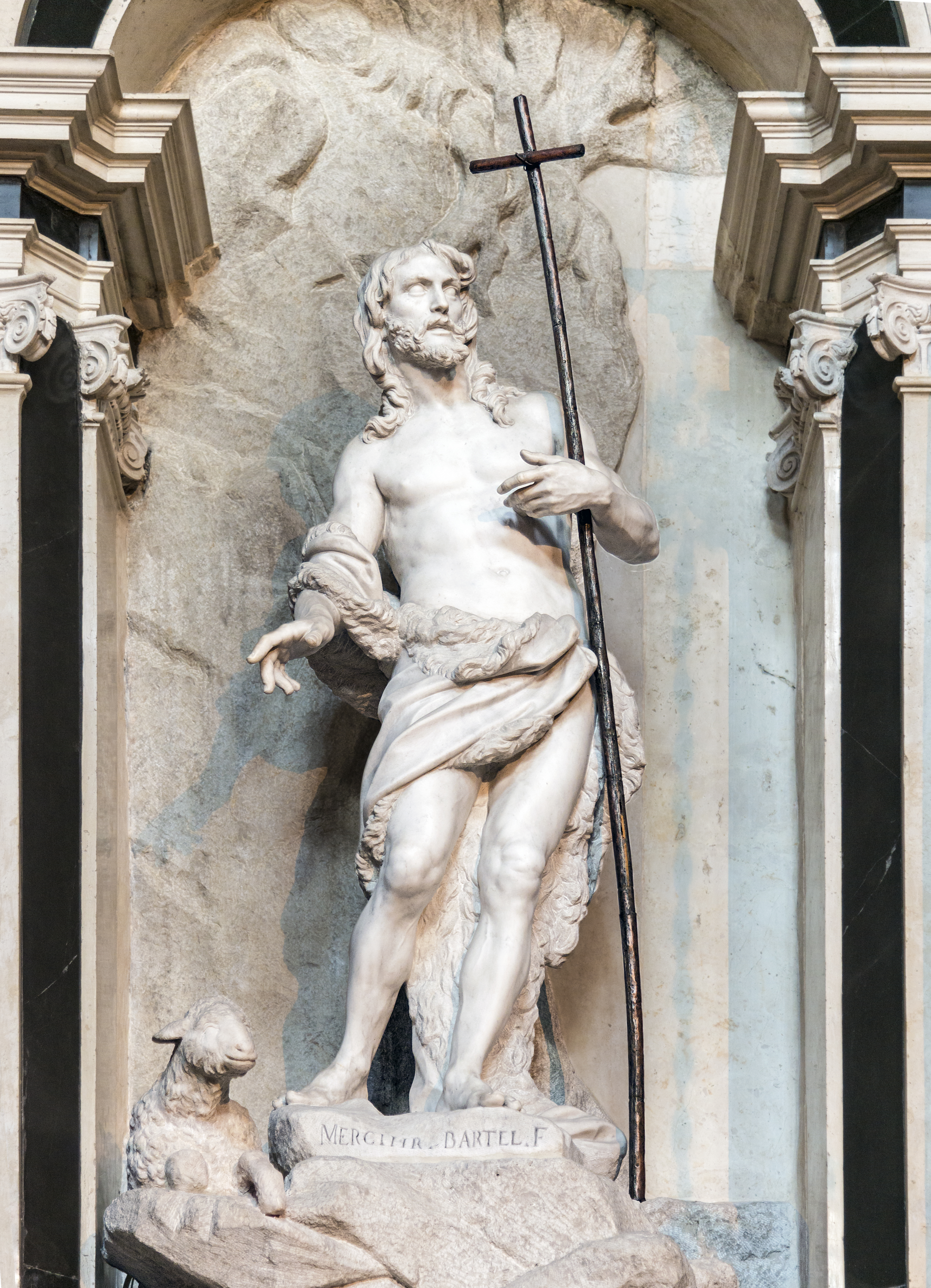 Church Santa Maria degli Scalzi Venice. Chapel Mora - John the Baptist by Melchior Barthel